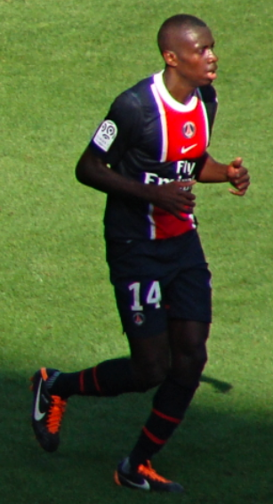 Blaise Matuidi, French international Footballer